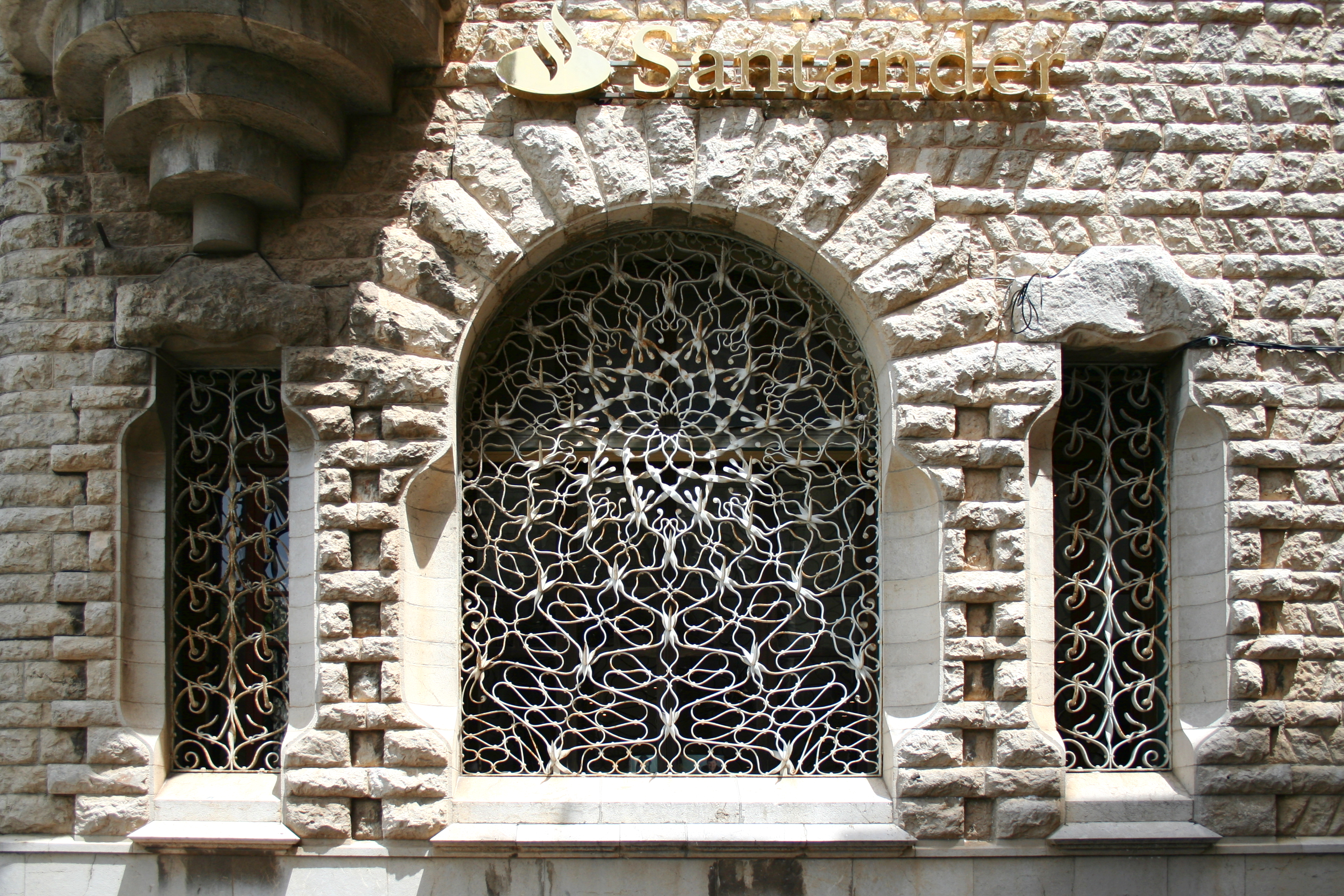 Modernista Ironwork window on building of Banco de Sóller - Mallorca